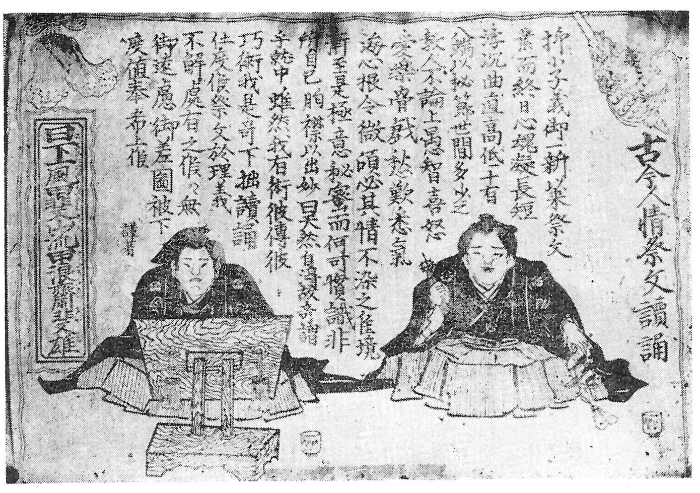 The poster of Derorinzaimon．(19th century)